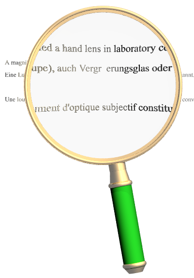 Magnifying glass